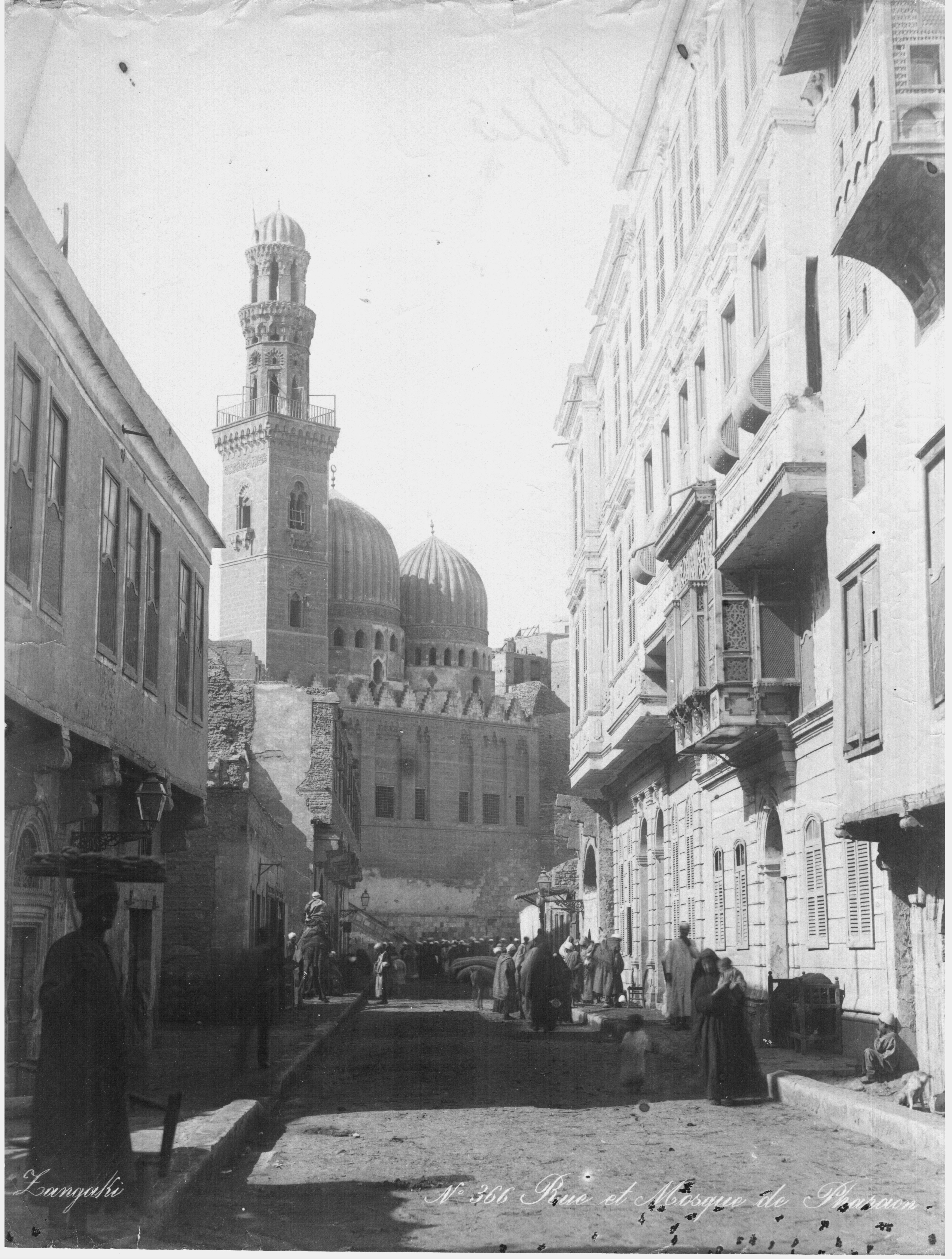 Photo on paper. Size 27,8 cm x 22 cm. Egypt. Unknown Hungarian photographer.No 269. Back side: Lapló, ex - libris. The photo was published under Creative Commons in the METAPOLISZ DVD line. (From METAPOLISZ ISBN: 963-229-987-6 to METAPOLISZ 260 DVD ISBN 978-615-5011-14-6 under ISBN number, from there published without ISBN number).